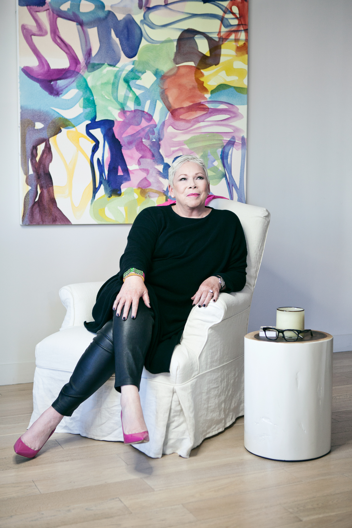 Sitting portrait of Better Homes and Gardens CEO, Sherry Chris